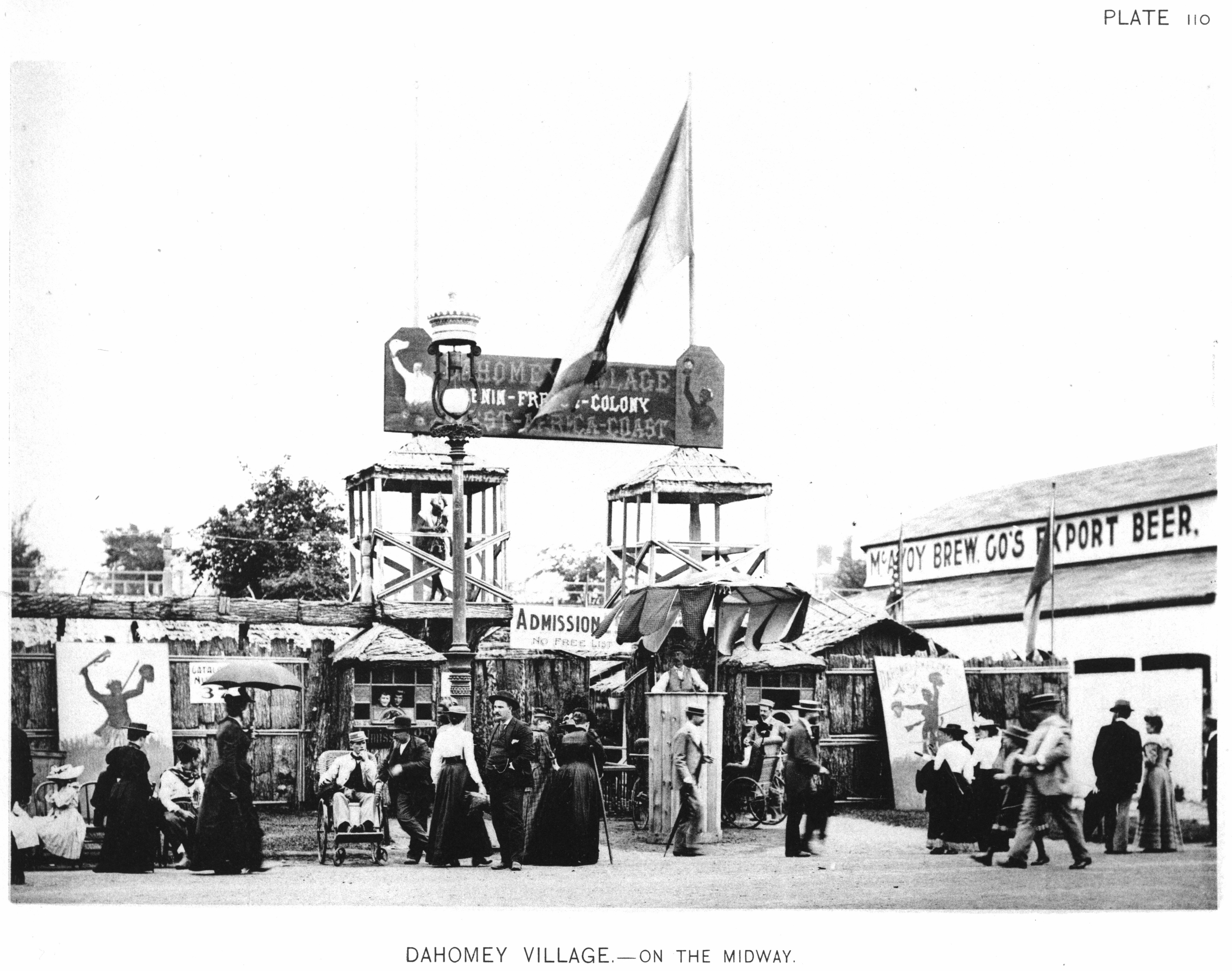 Official Views Of The World's Columbian Exposition: Dahomey Village--On The Midway. - McAvoy Brewing Company, Chicago, located beside.